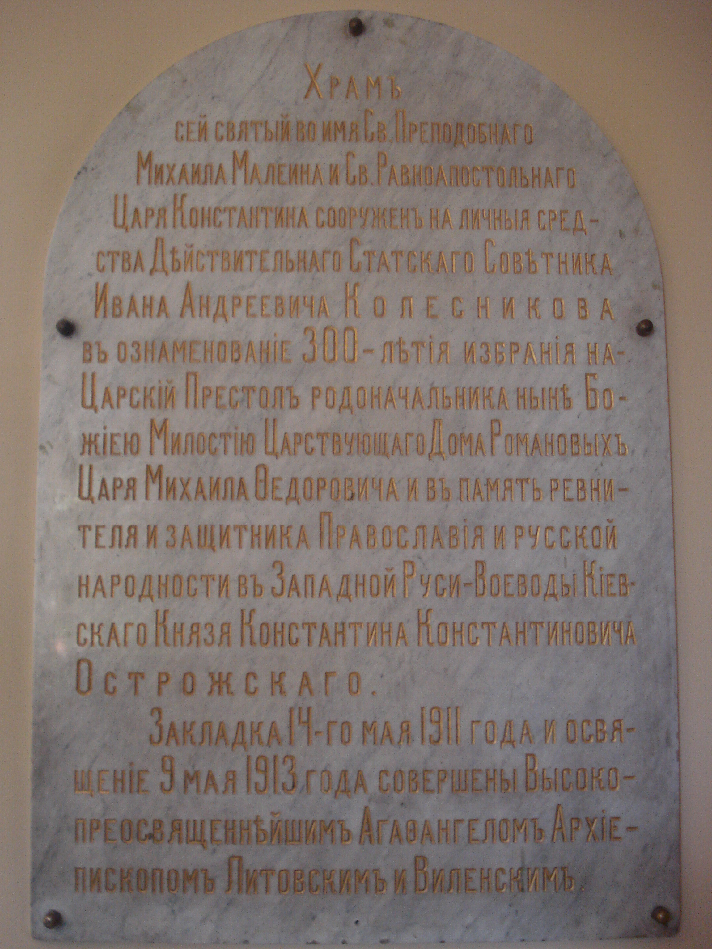 Plaque in the Orthodox Church of StMichael and StConstantine in Vilnius